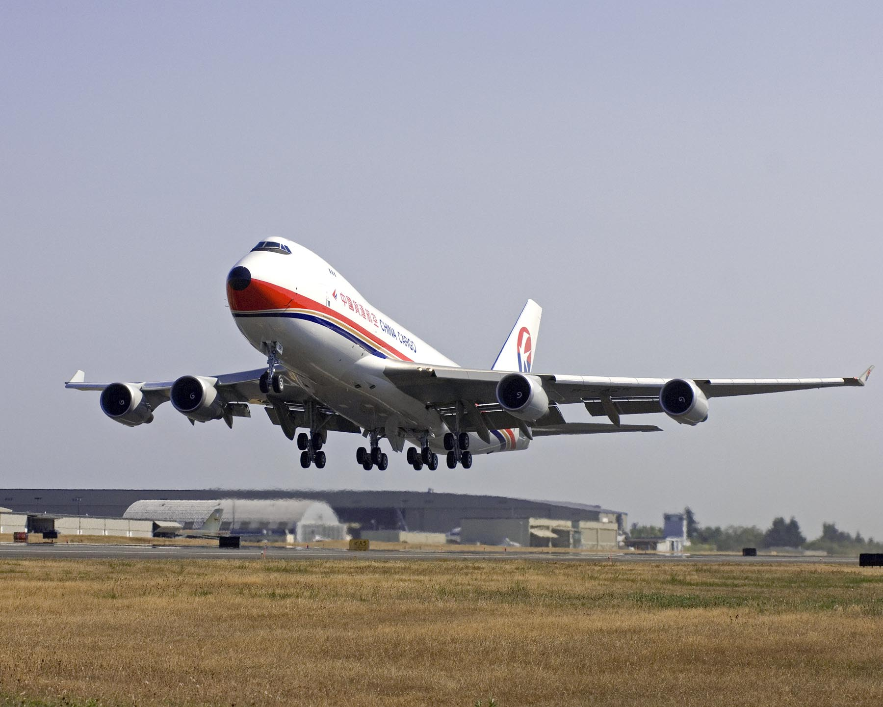 China Cargo Airlines Boeing B747-400ERF